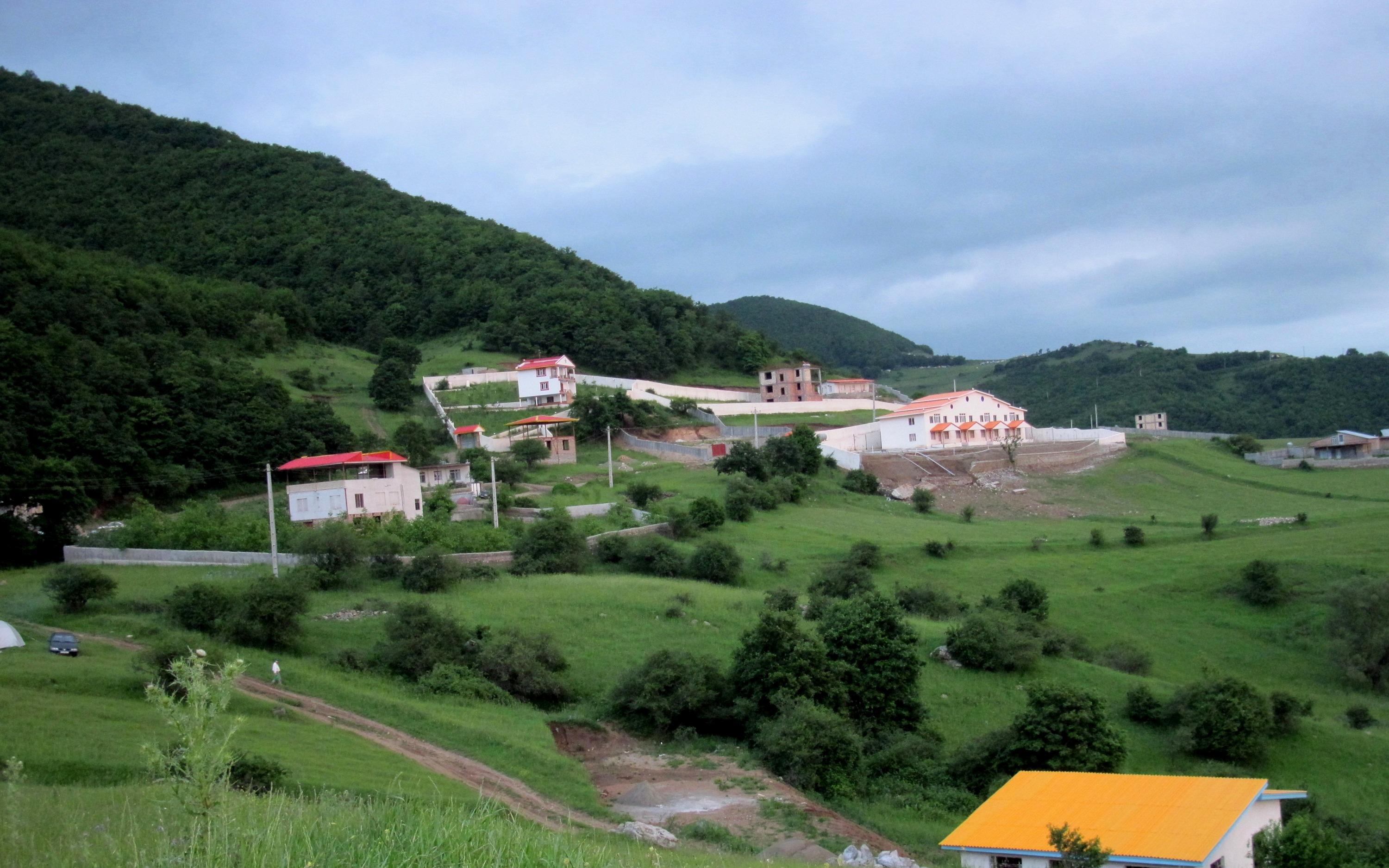 For Garmanab wiki page.